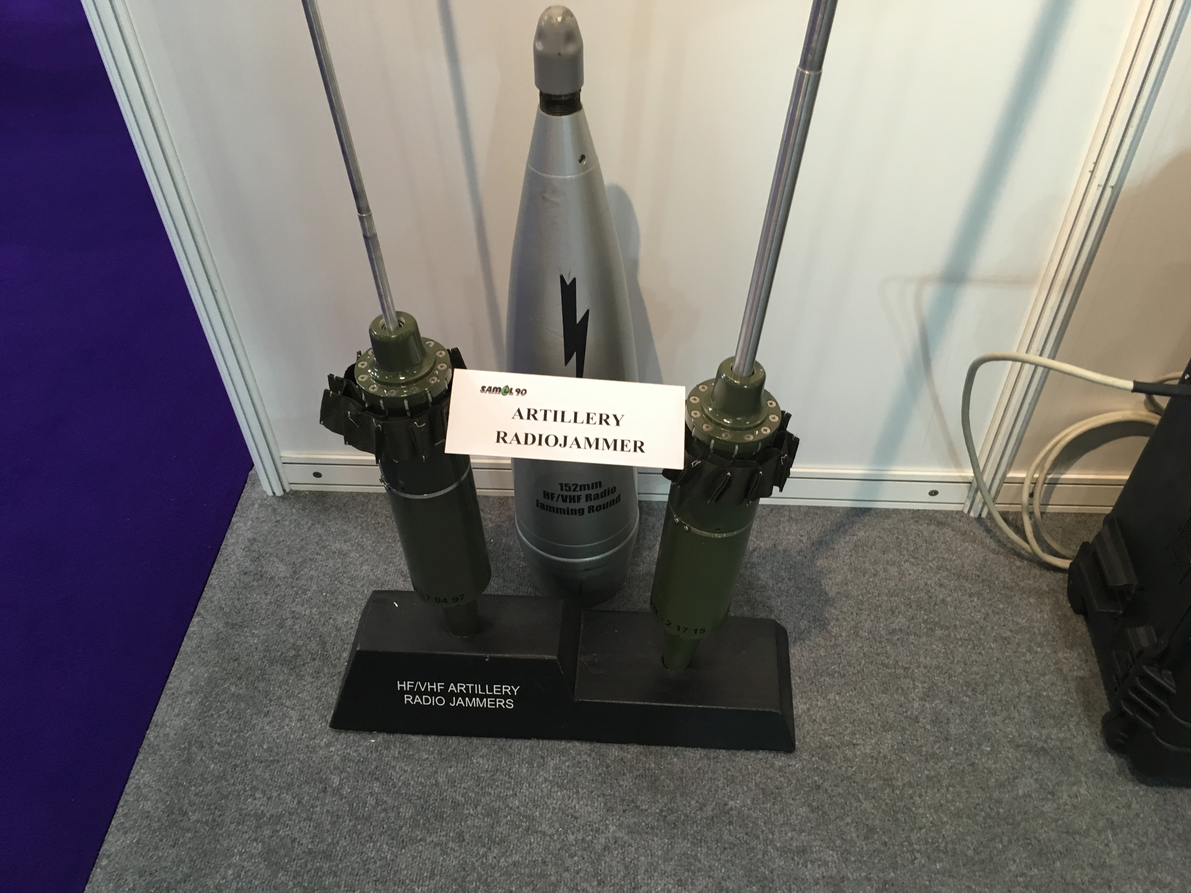 Starshel radiojamming round on DSEI-2019 from Bulgarian Company Samel90